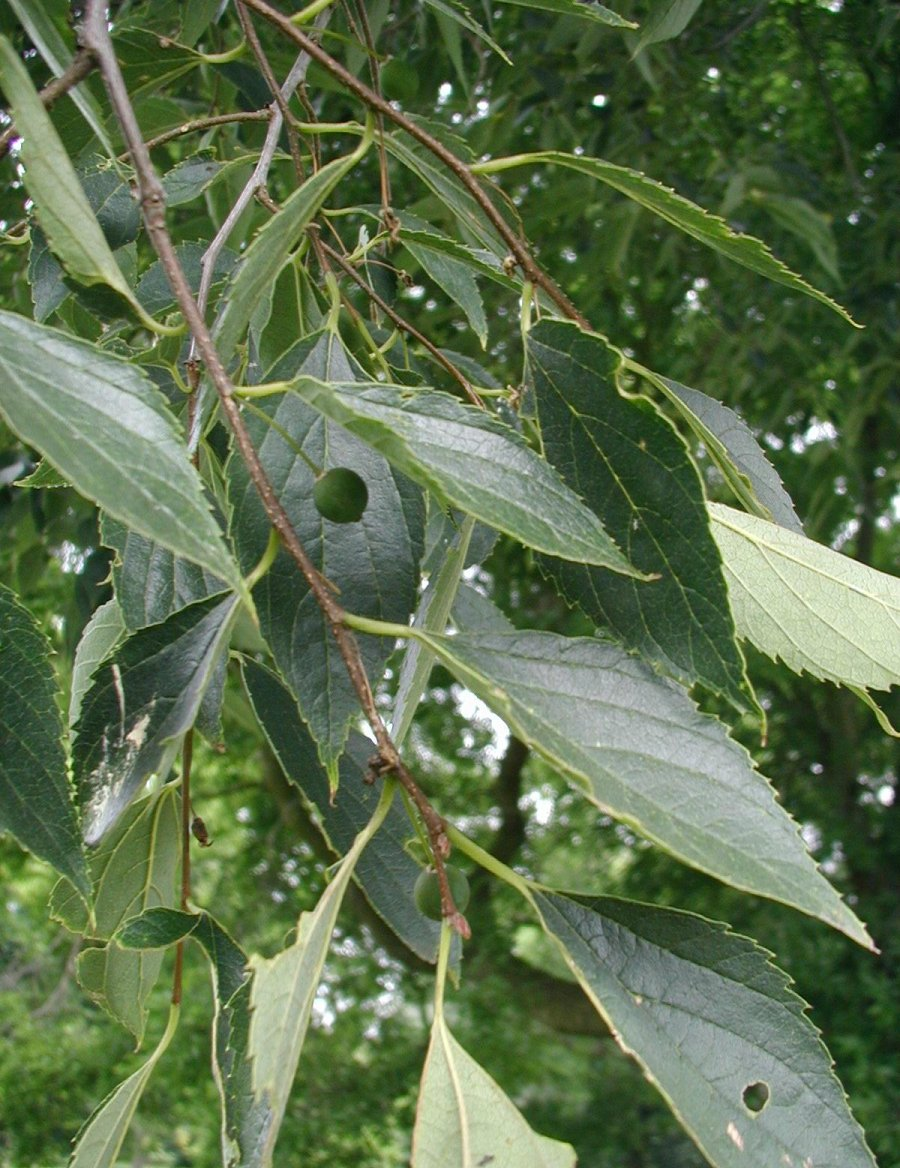 Celtis caucasica: Fruit and leaves